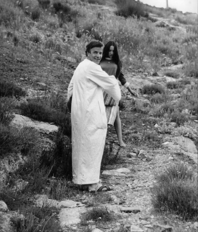 The pictures of the present exclusive picture feature was taken in the vicinity of Pienza (Siena) while the stars of the film "Romeo and Juliet", Leonard Whiting and Olivia Hussey, and their film director Franco Zeffirelli take a bath in a natural calcareous pool, while Leonard Whiting practises the art of fencing and horse riding for his role in the film, and while the two young stars have a walk around the old streets of the town like two school children on holiday laughing and joking with everyone and everything.